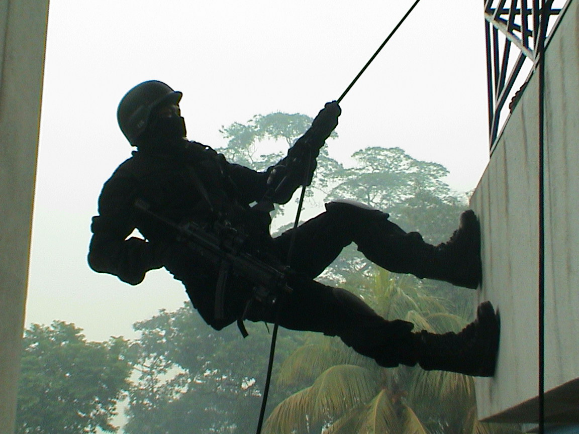 The PGK Detachment A ready to moving down during the fast roping drill at PGK Special Operations Training Facility. Taken by me at PGK A Special Operations Training Facility in Bukit Aman, Kuala Lumpur.